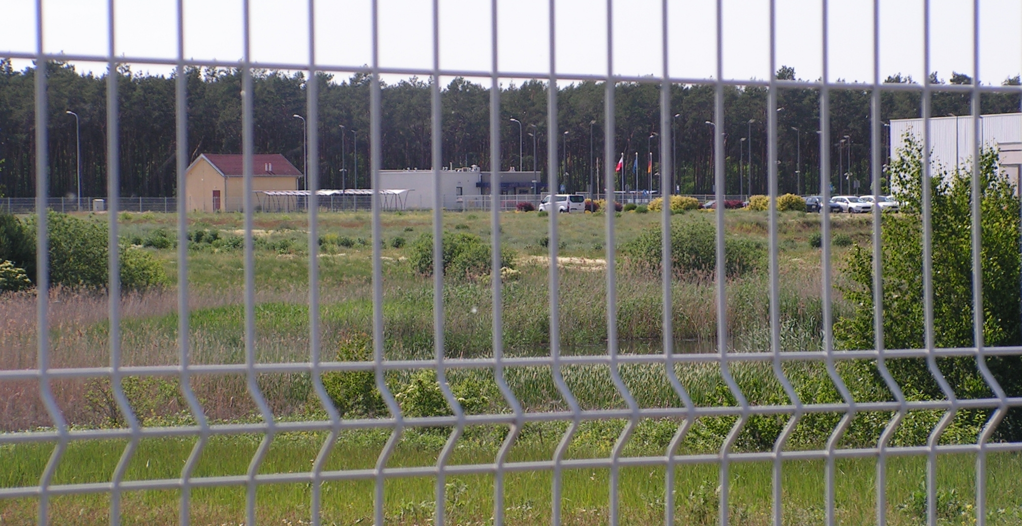 Area where is declining Kawka Lake in Włocławek. On the photograph there is a part of water in it.